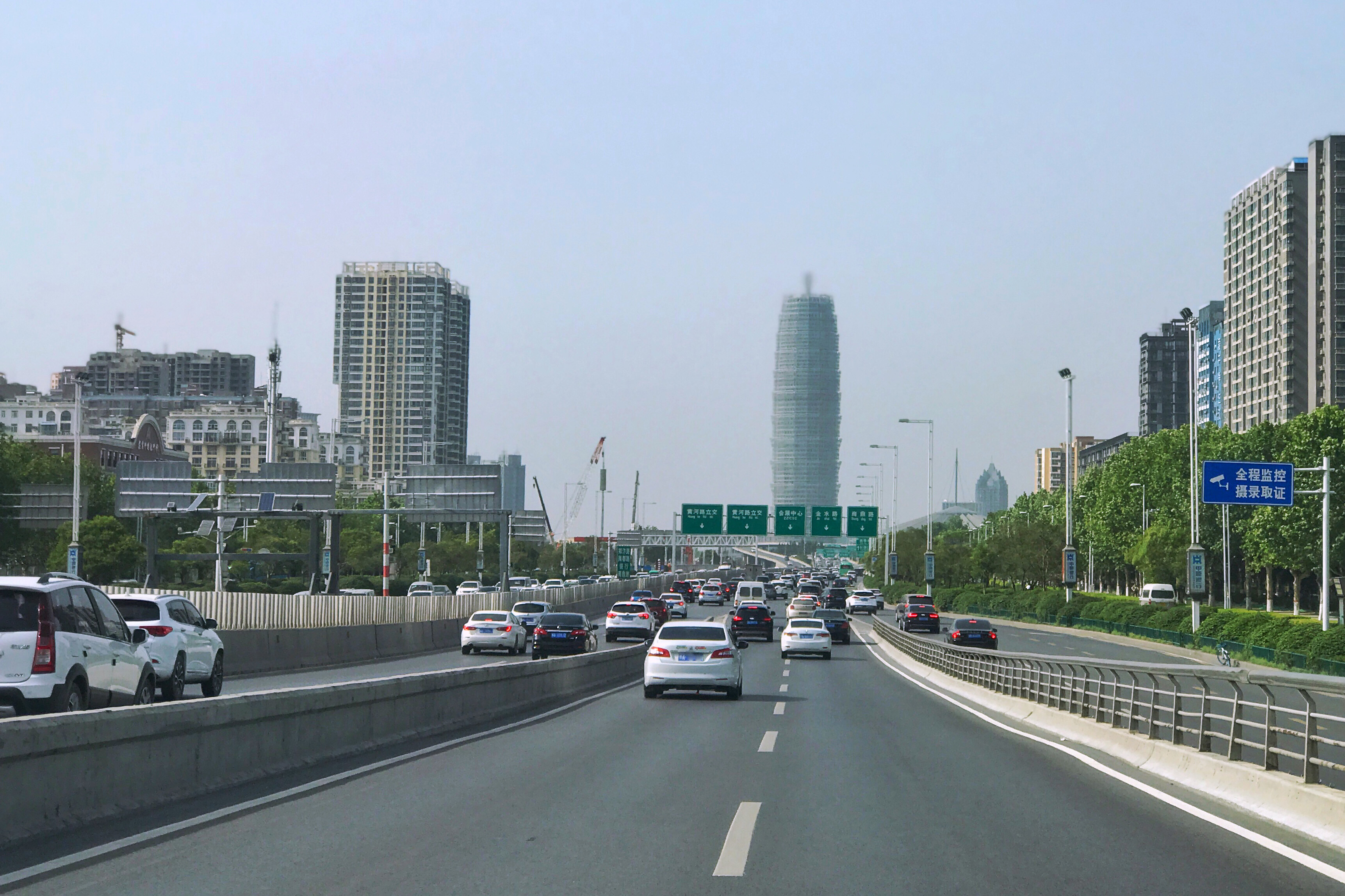 Zhongzhou Avenue is one of the busiest roads in Zhengzhou